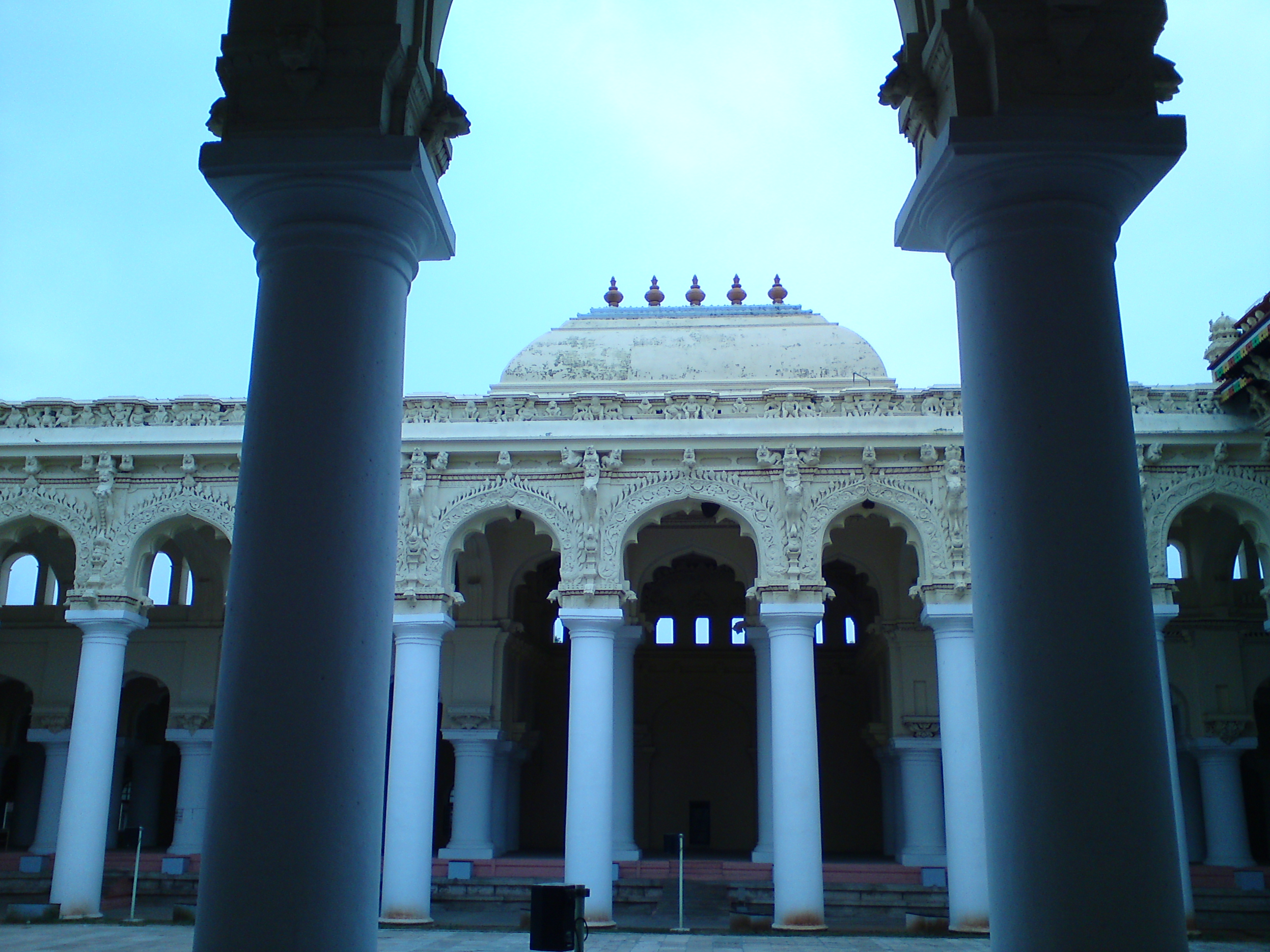 Thirumalai Nayakar Mahal